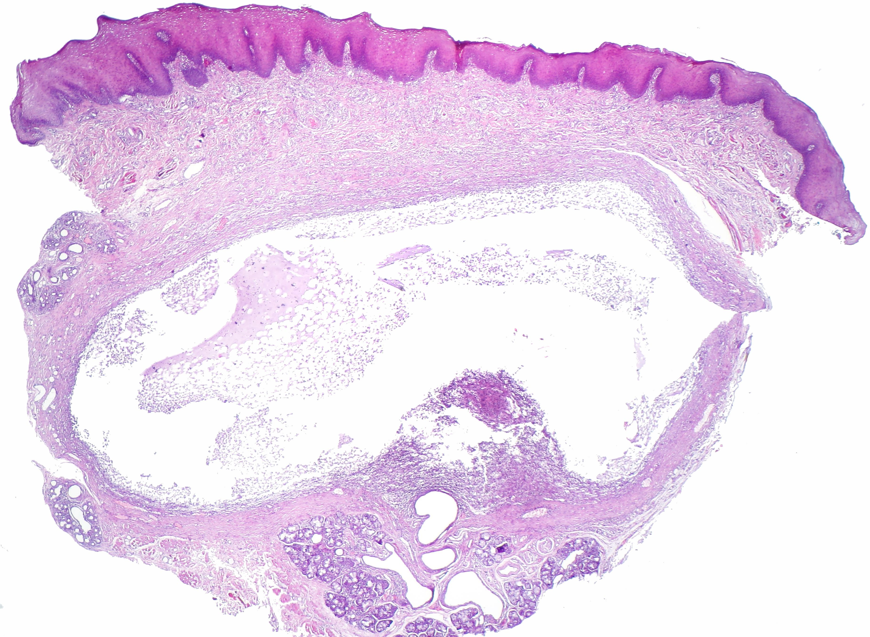 Ranula, low mag.